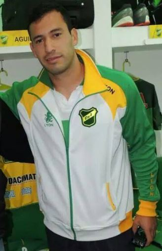 Aguilera